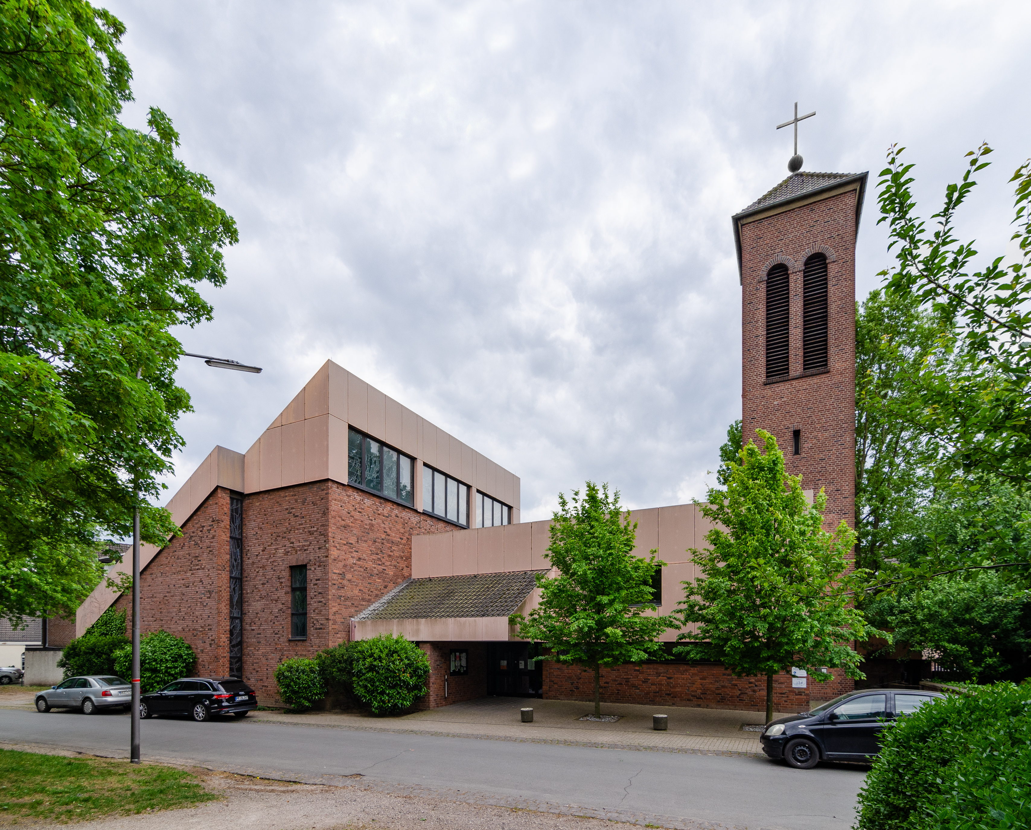 Moers (North Rhine-Westphalia, Germany) – district Schwafheim – Protestant Church